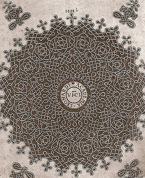 Emblem of school of Leonardo da Vinci